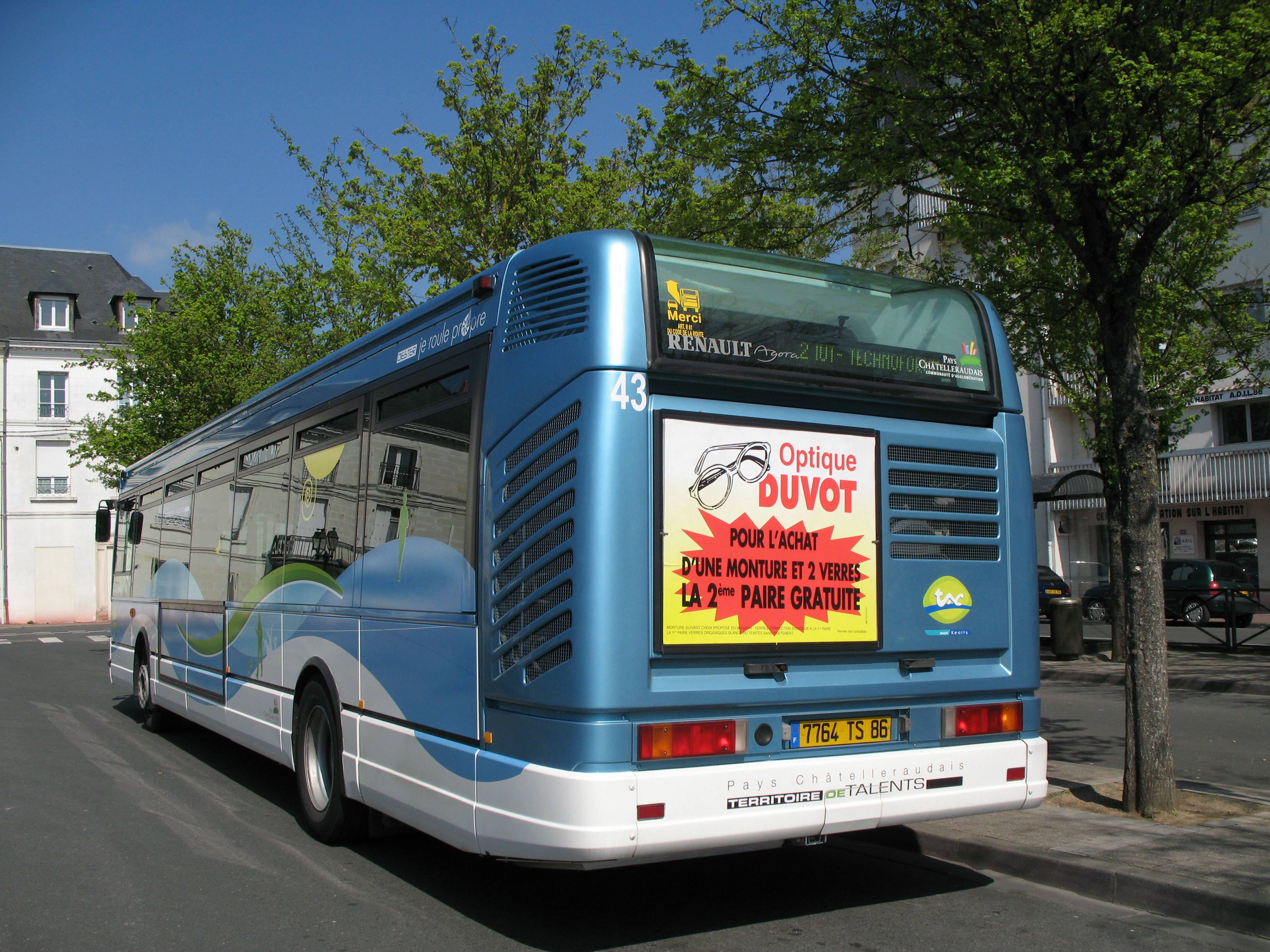 Bus of Châtellerault network transportation (dept 86 France) Renault Agora S n°43 Métronome 2 line. Na Vosa Vakaviti: Bus à Châtellerault (86 France) Renault Agora S n°43 ligne Métronome 2.